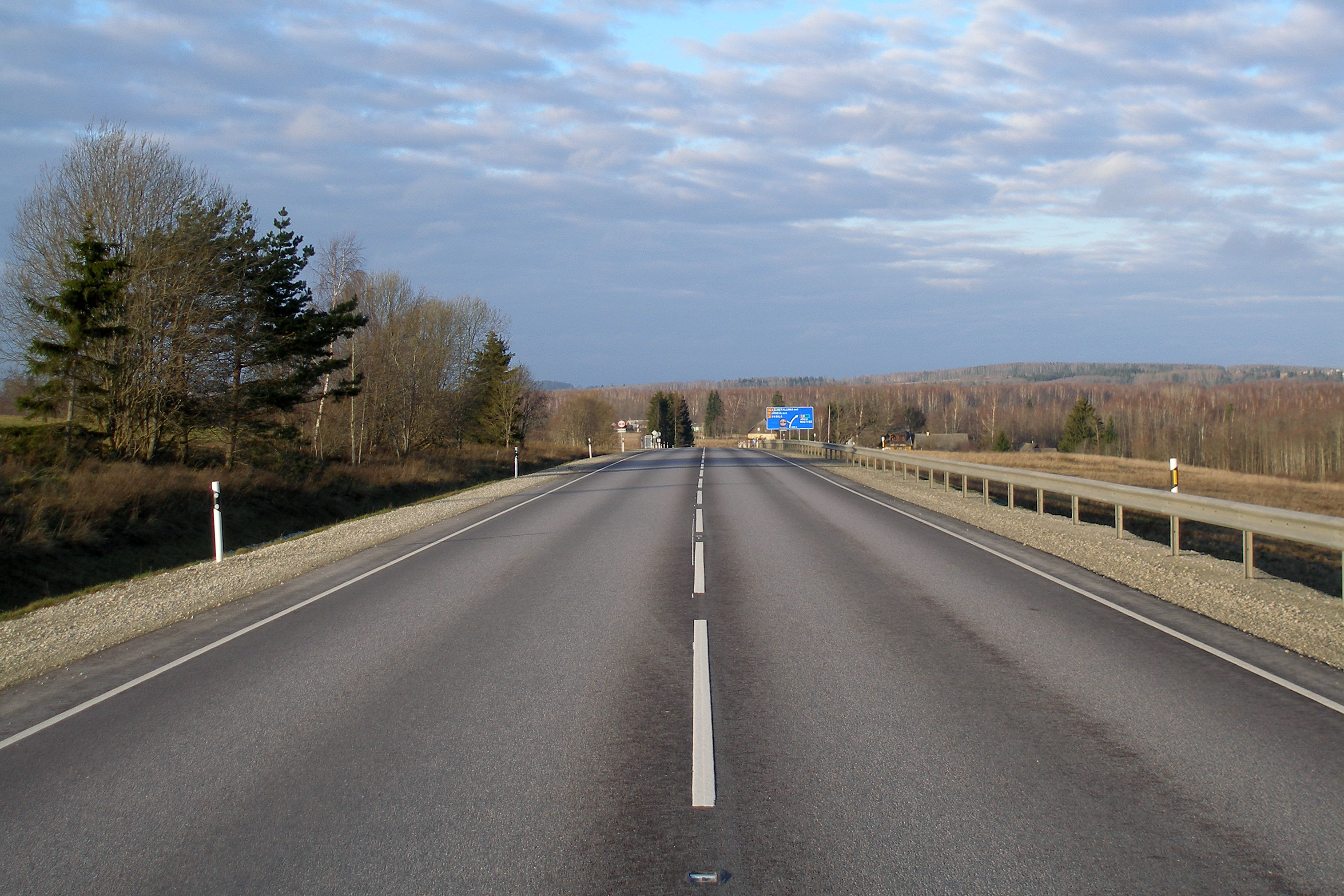 Jõhvi-Tartu highway (E 264) 8 km north of Tartu, Estonia